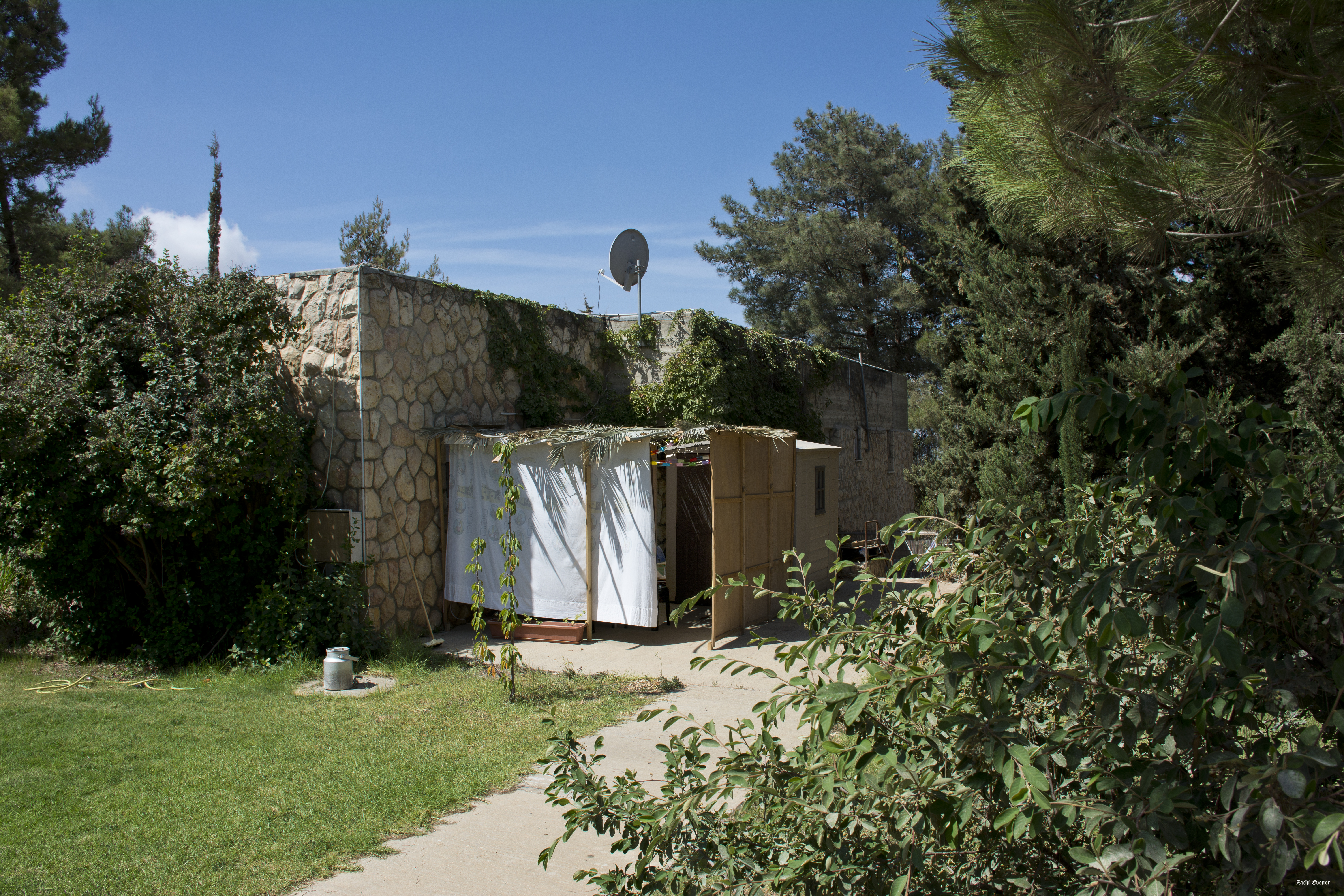 Sukkoth in Kfar Etzyon, Gush Etzyon, Israel